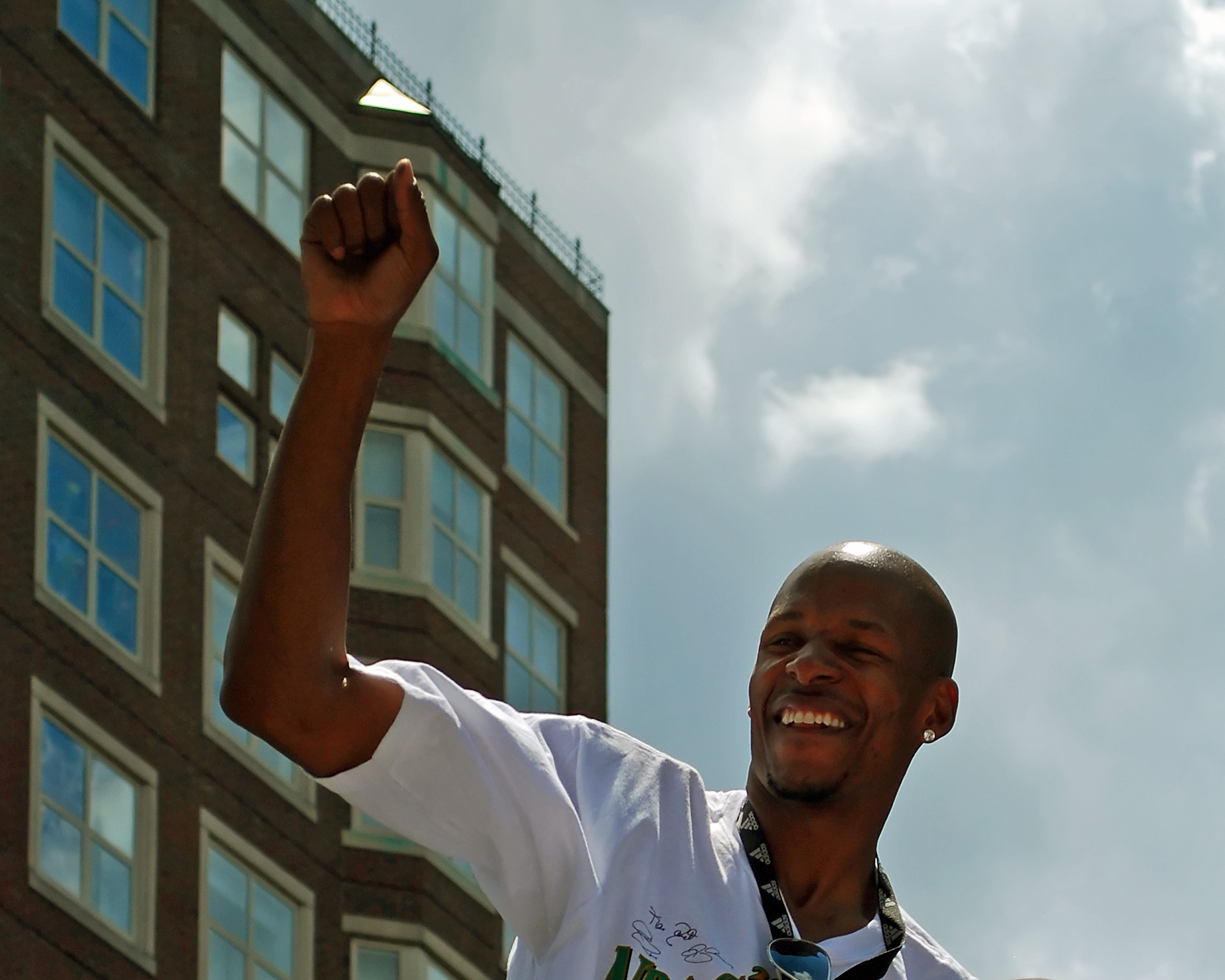 Ray Allen, another one of the reasons the Celtics won their 17th NBA title.